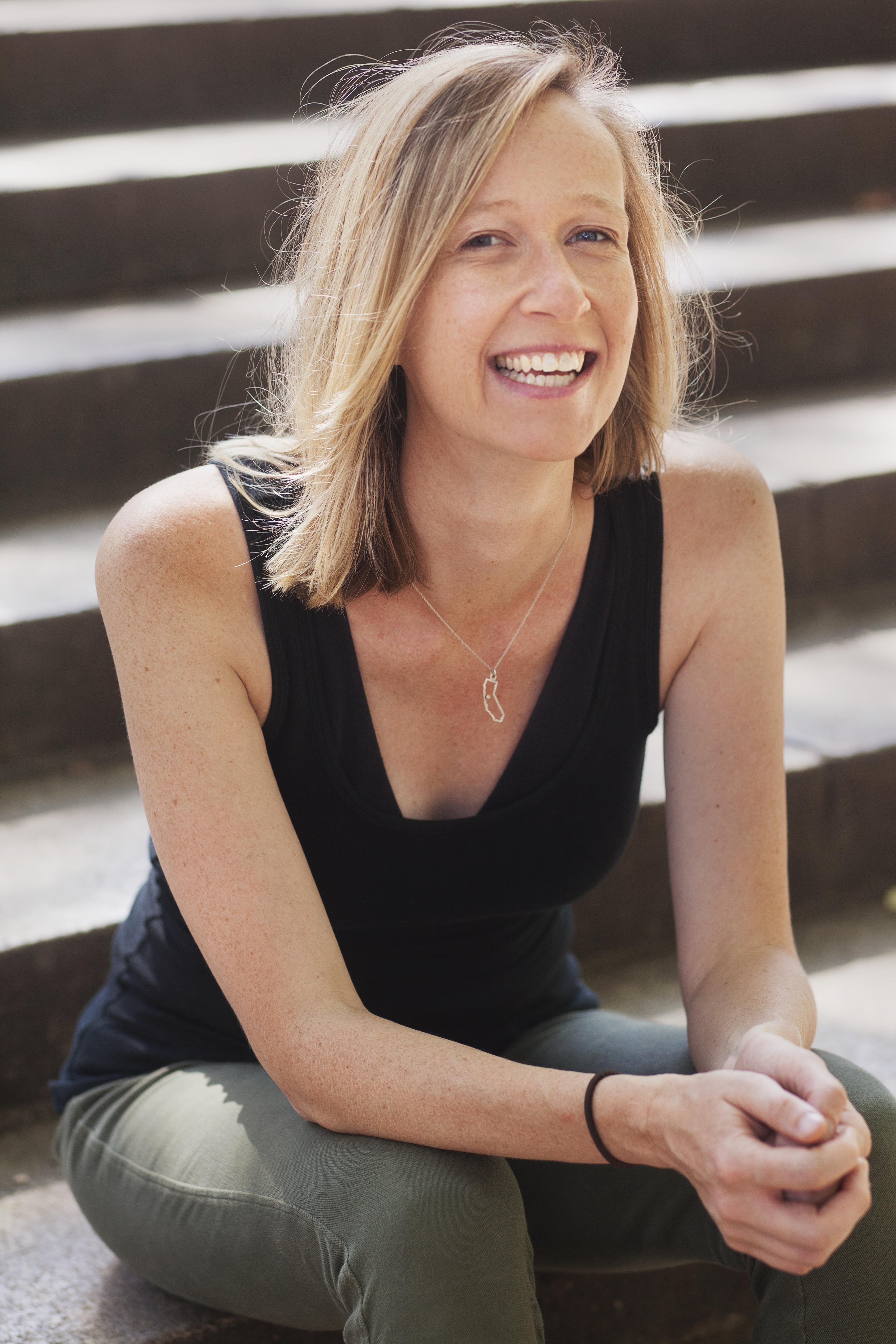 Headshot of climate scientist Kate Marvel